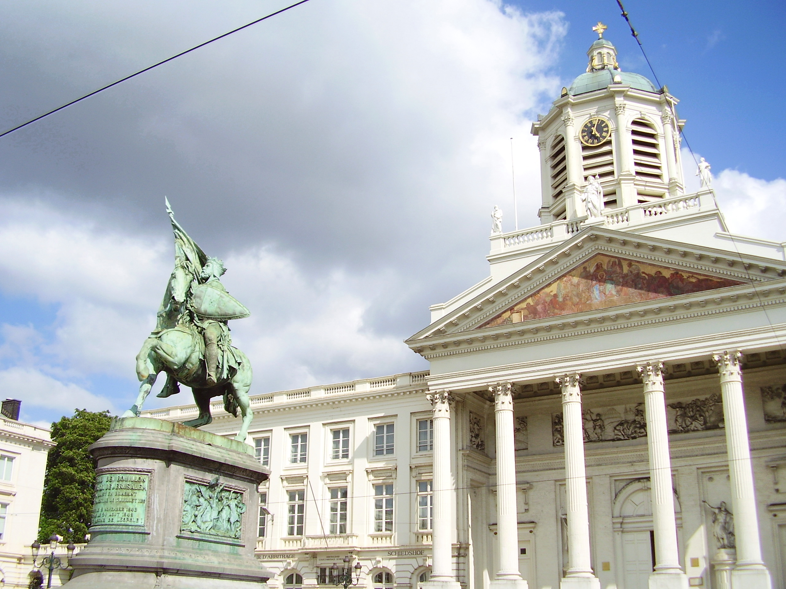 Description: Place Royale (Bruxelles) Author: User:Ben2 Date of creation: 12 juin 2006 Source: Photo personnelle